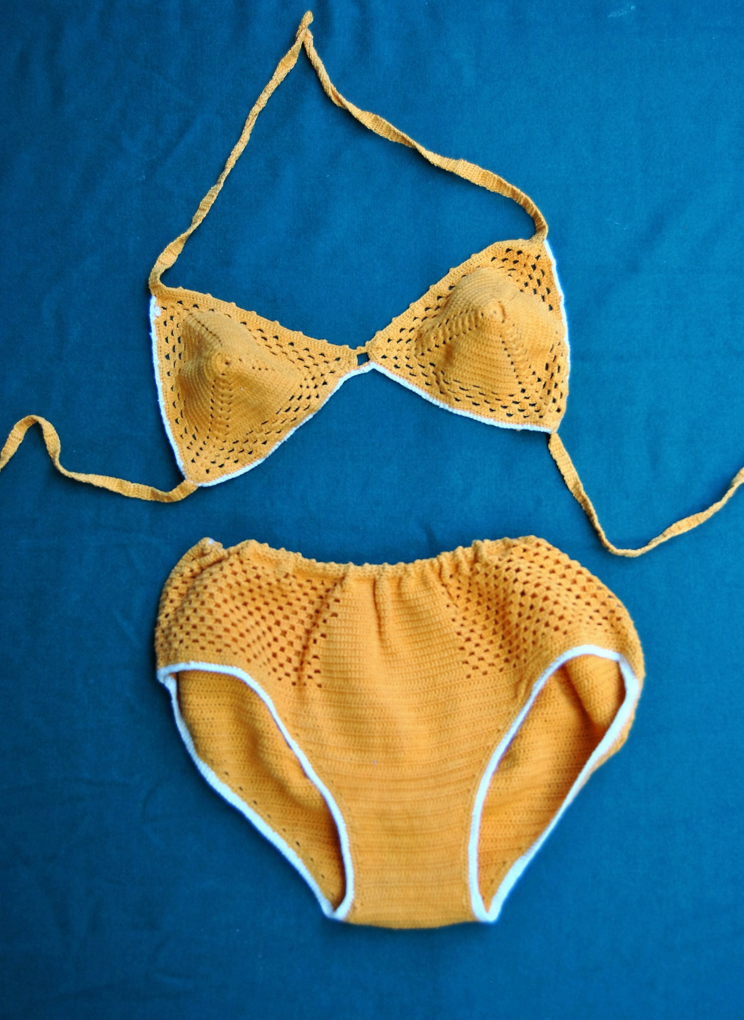 A female swimsuit from the 70's, Museum in Smederevo